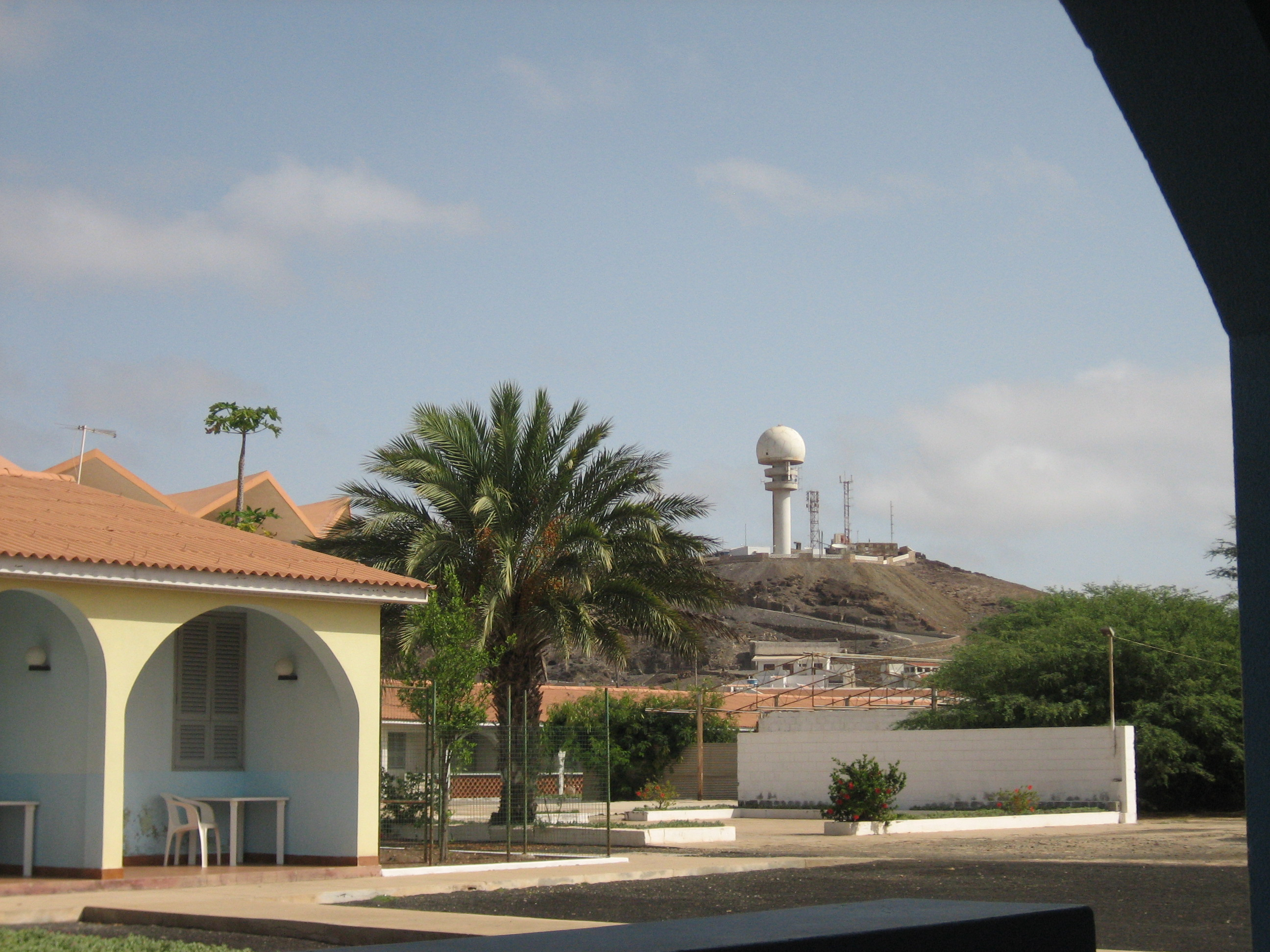 Monte Curral with the radar station of the air traffic safety, Espargos, Cape Verde